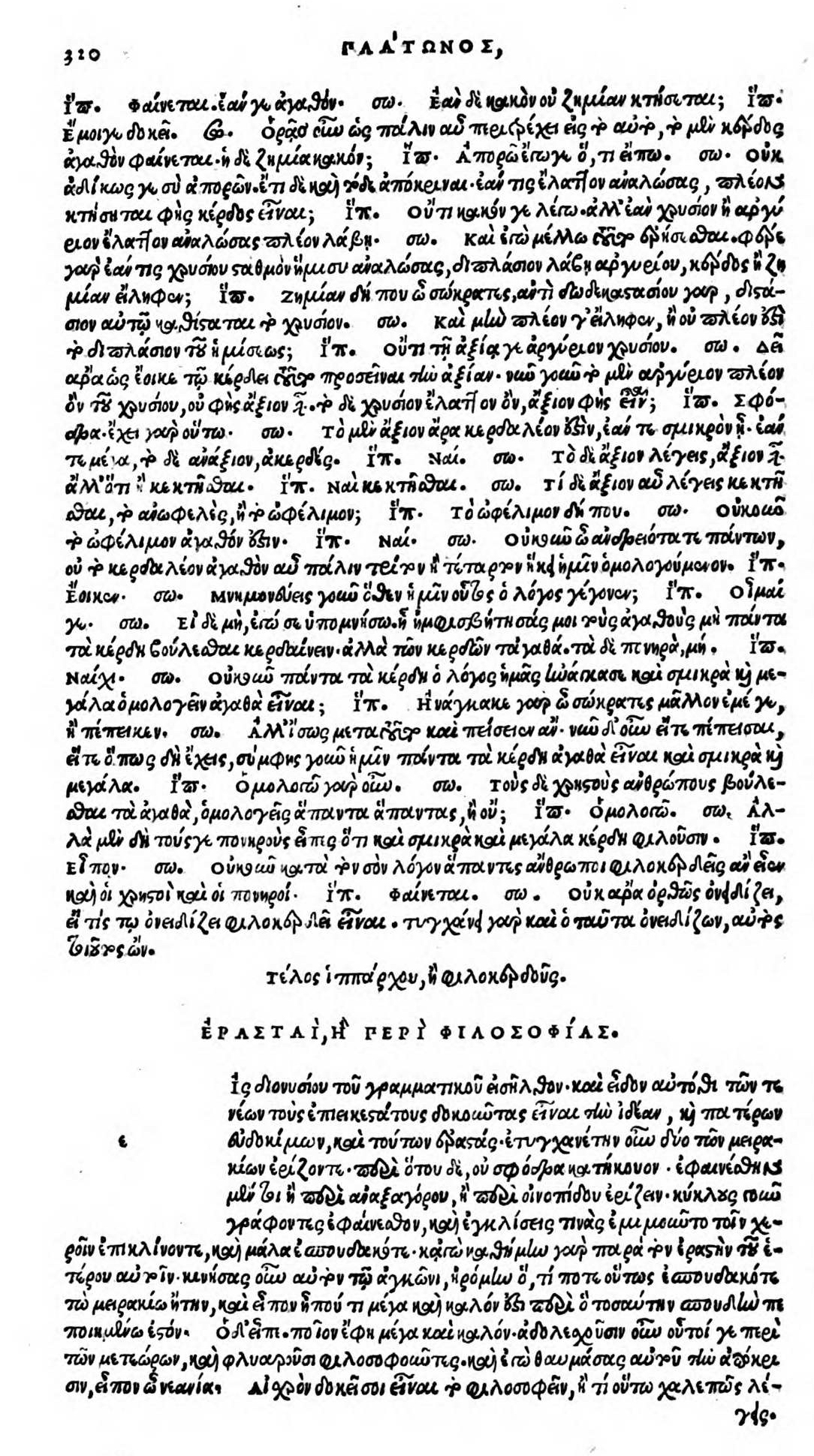 Erastai beginning. Editio princeps, Venice 1513.